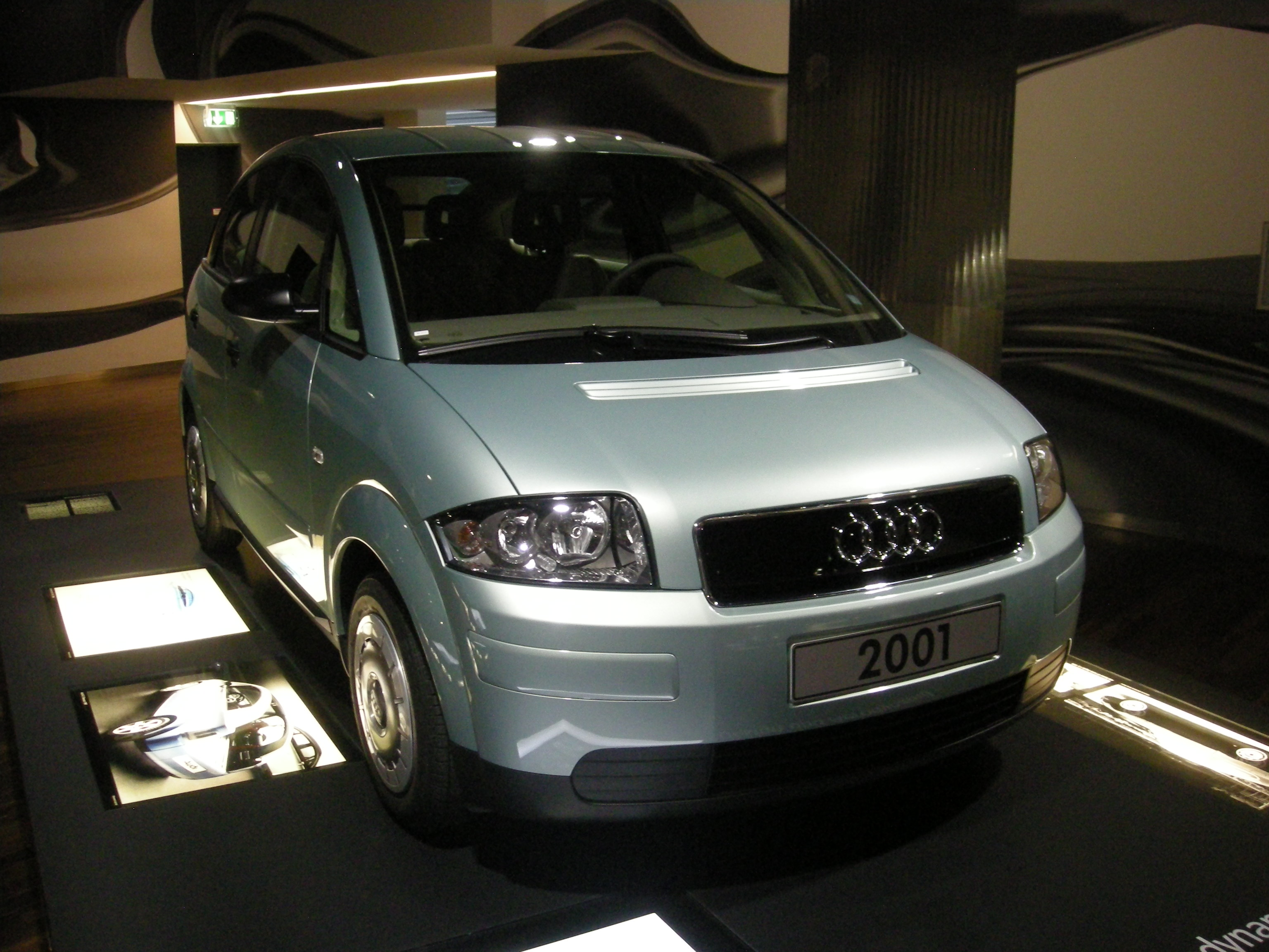 A 2001 Audi A2 inside the ZeitHaus at Autostadt in Wolfsburg, Niedersachsen (Germany).